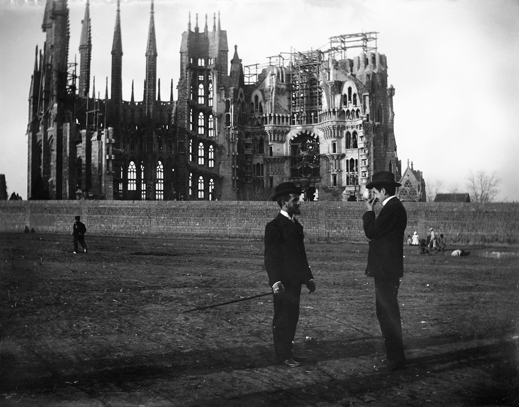 La Sagrada Familia Pic by Baldomer Gili i Roig, 1905. Modern copy of the original cristal negative